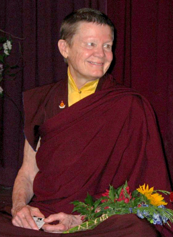 Pema Chödrön, Practising Peace at Times of War with Richard Reoch at Omega Institute, May 28th 2007